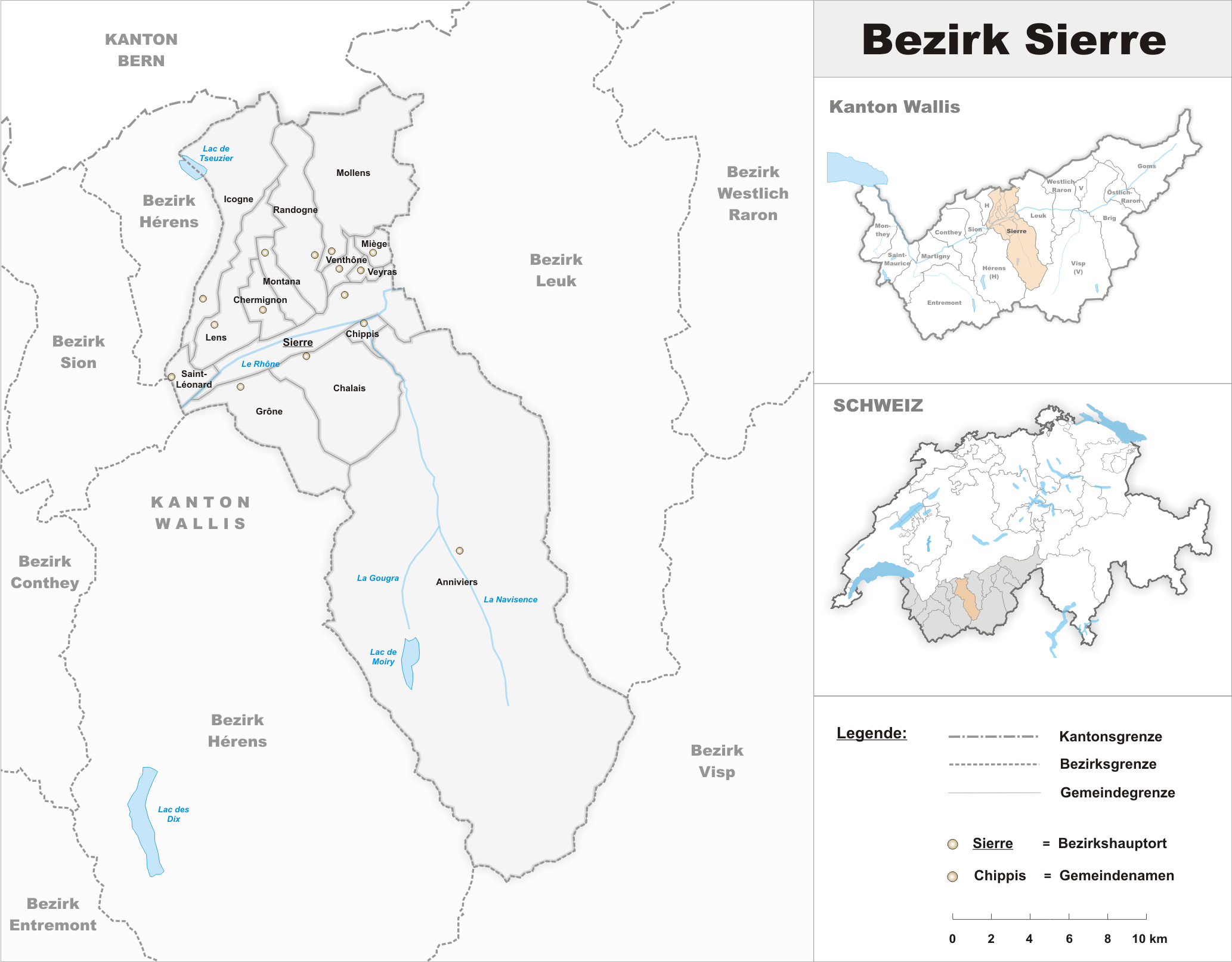 Municipalities in the district of Sierre to 2009